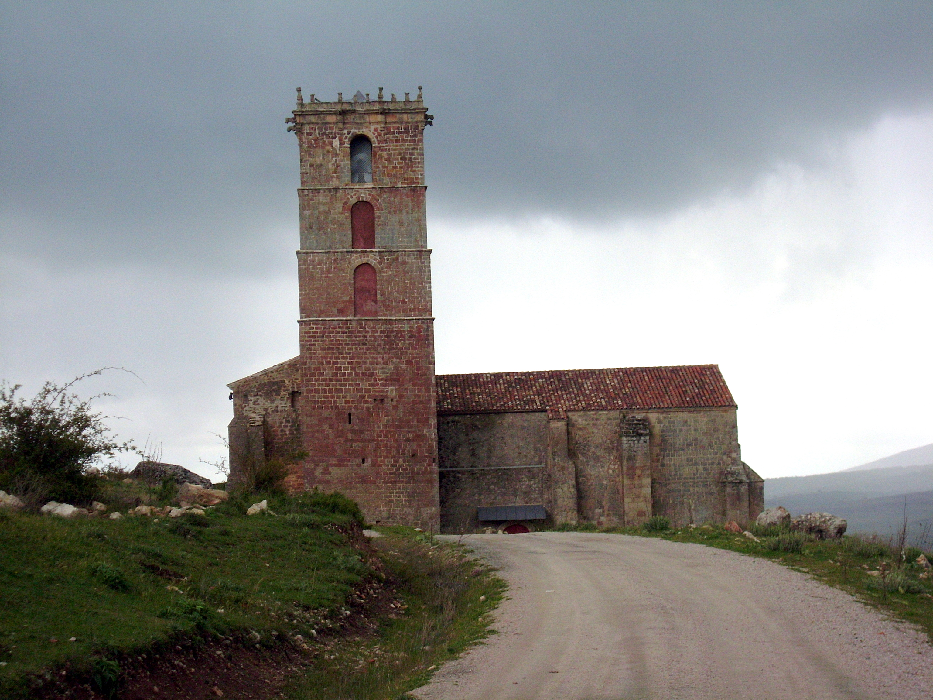 Church of Saint Mary of King, from 11th century, in Atienza, Guadalajara, Spain.